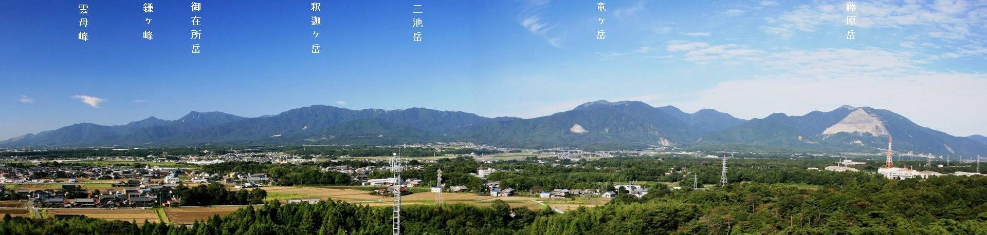 Suzuka_Mountains_from_Inabe_City